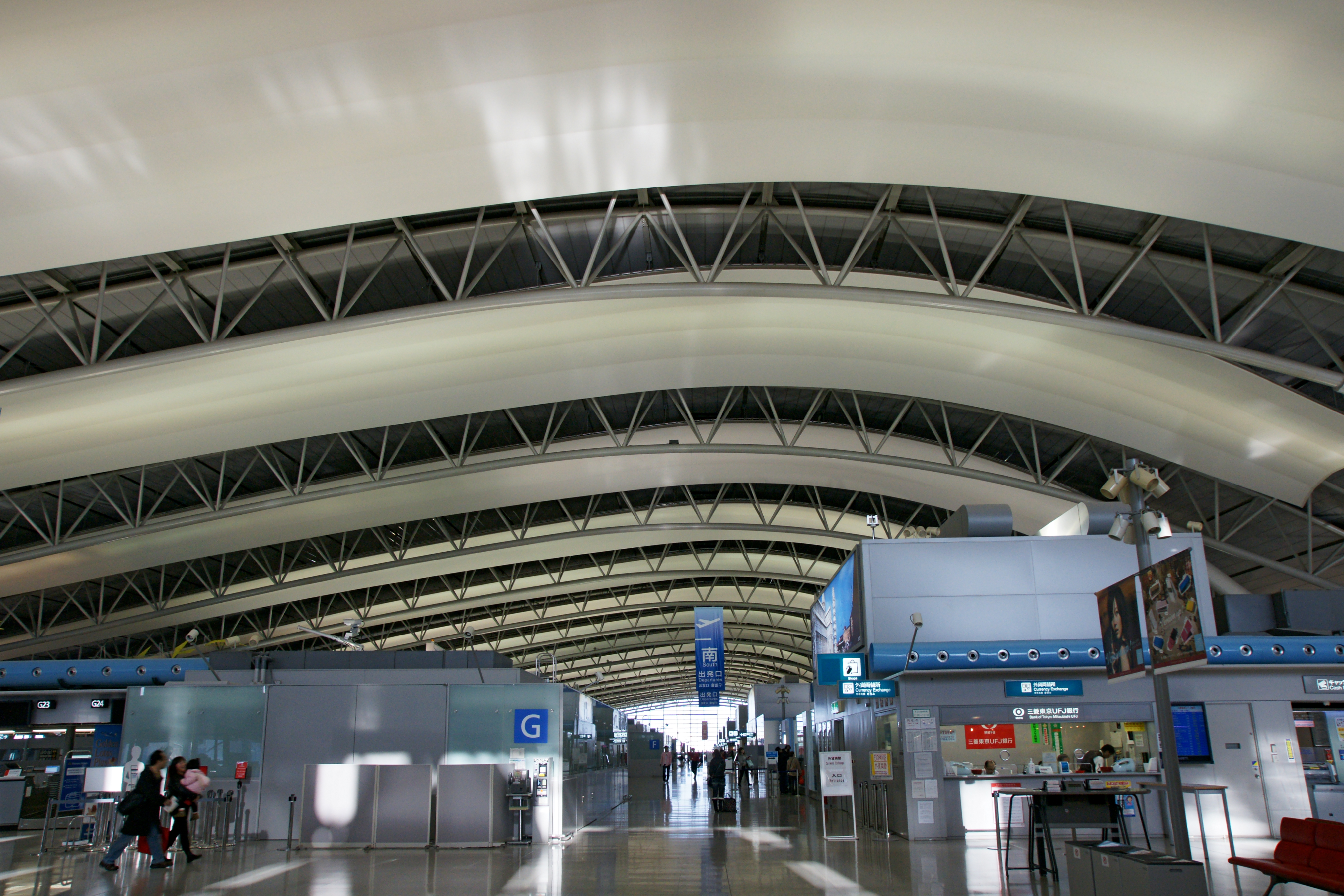 Kansai International Airport, Izumisano, Osaka prefecture, Japan